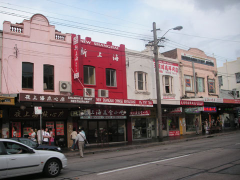 A strip of Shanghai themed restaurants in Liverpool Rd, Ashfield, NSW